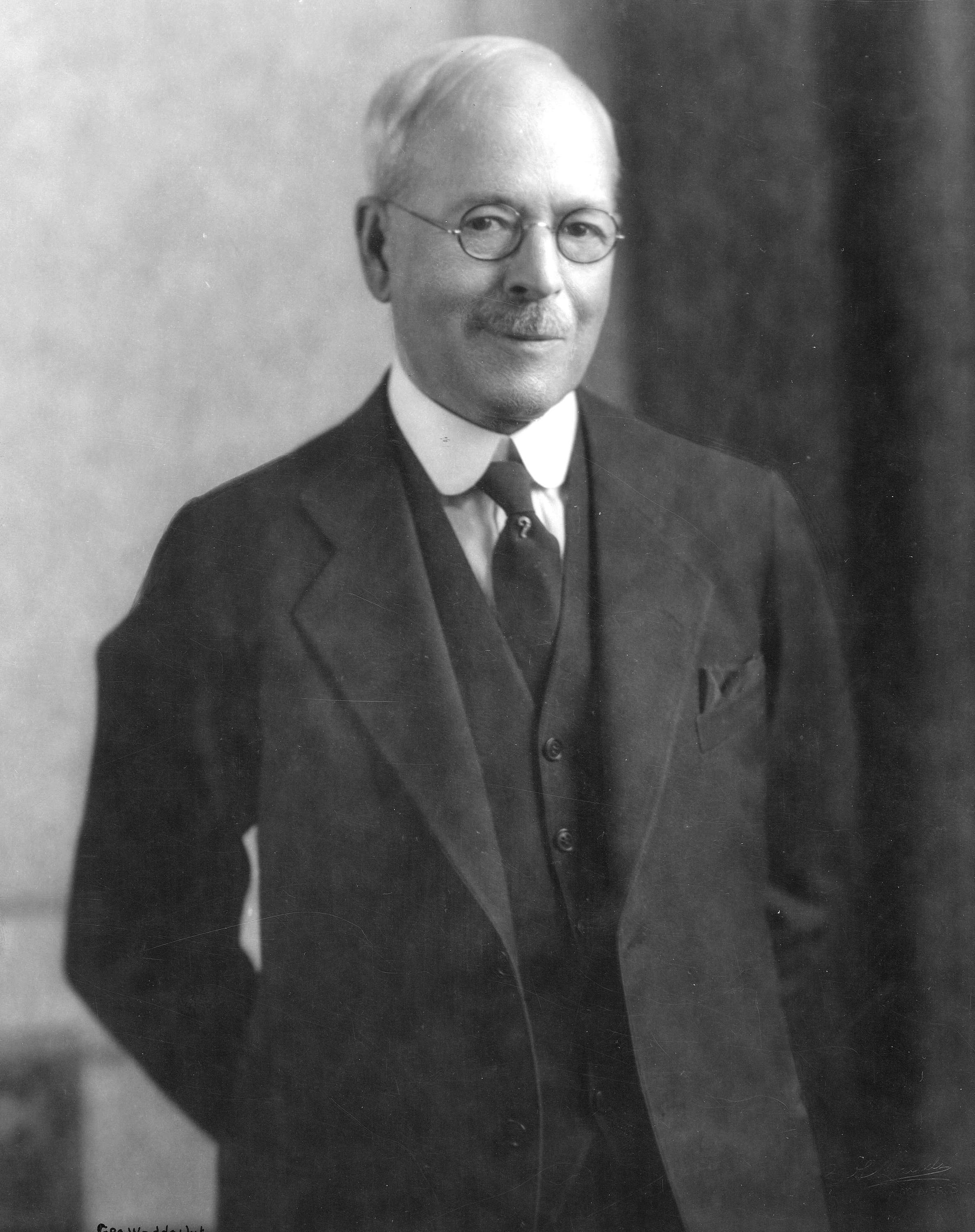 Louis Denison Taylor in his last term as mayor of Vancouver